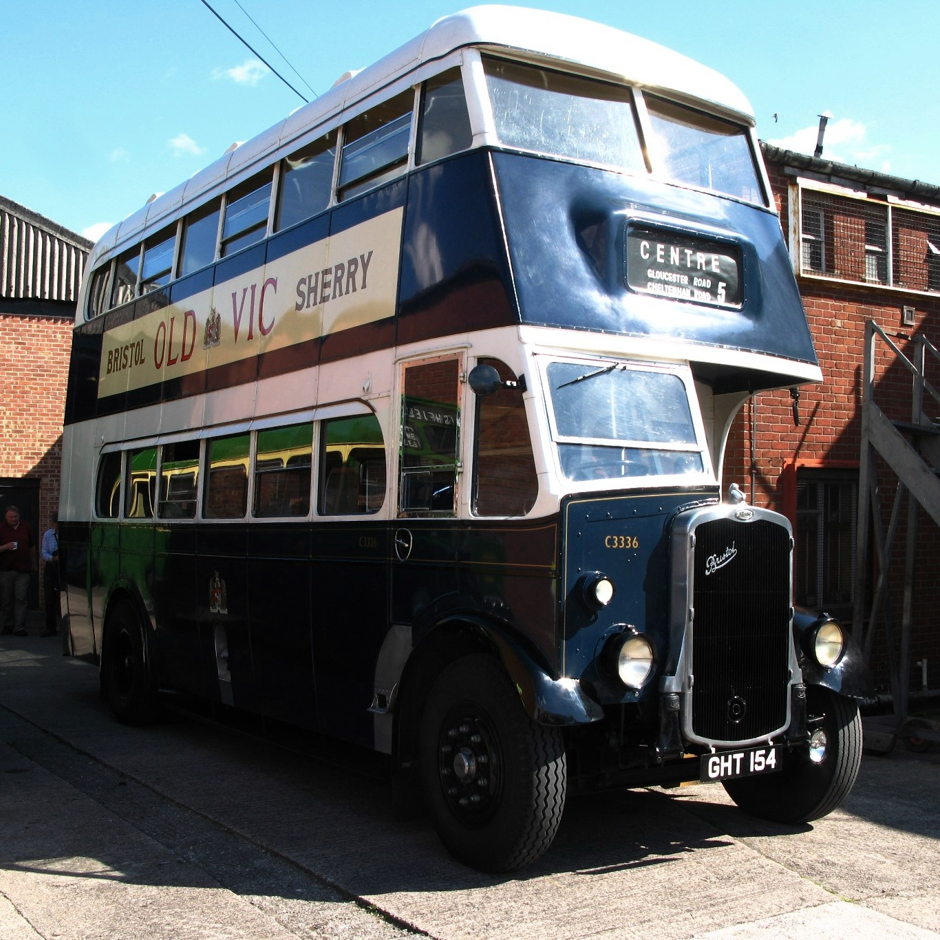 Bristol Tramways C3336 (GHT 154) is a K6G chassis with Bristol-built body dating back to 1940. It is seen at the depot of the Bristol Vintage Bus Group.